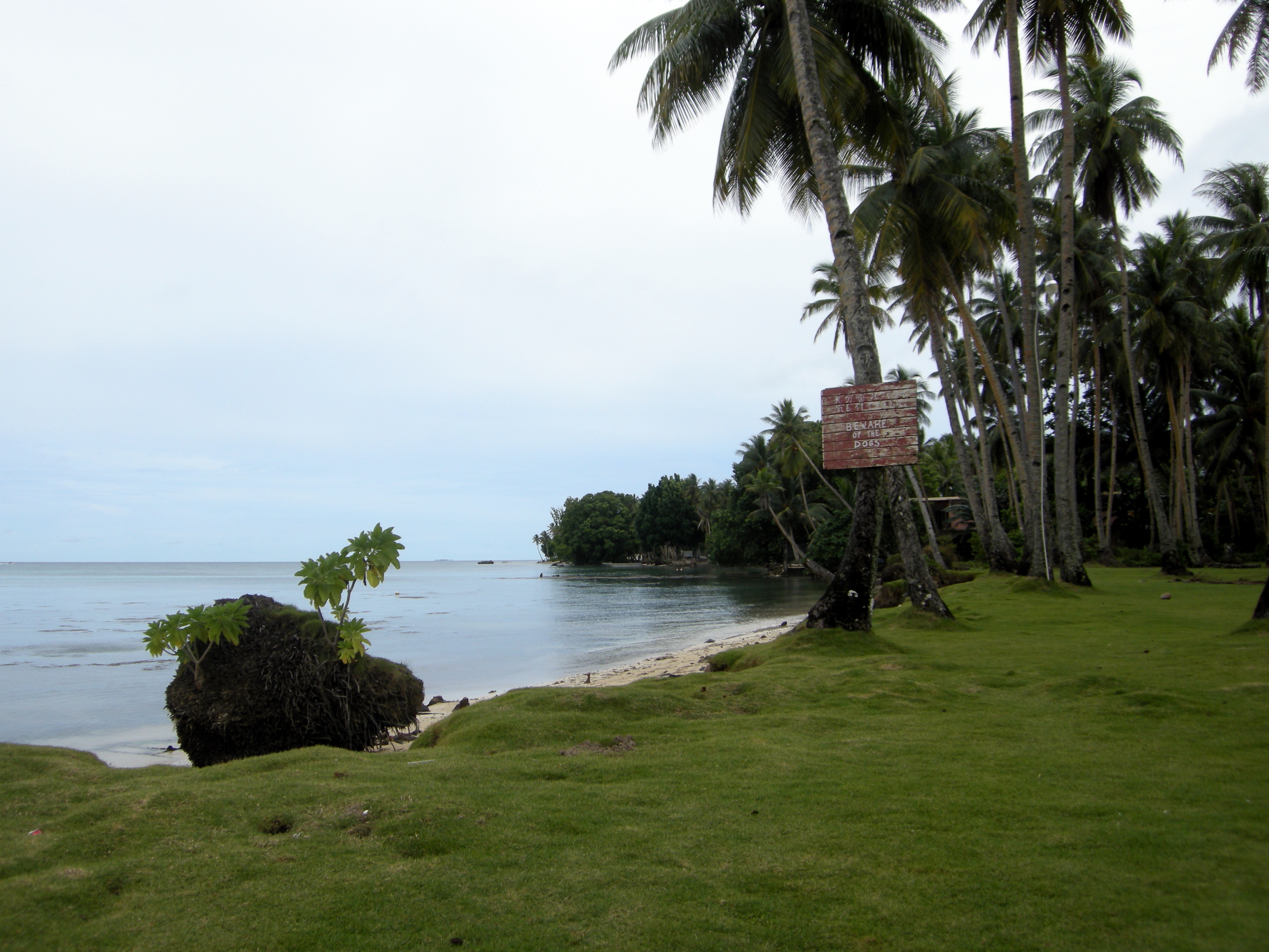 Beach on Weno island (Chuuk, Federated States of Micronesia). A sign on a tree, in Japanese and English, reads "Beware of the dogs".